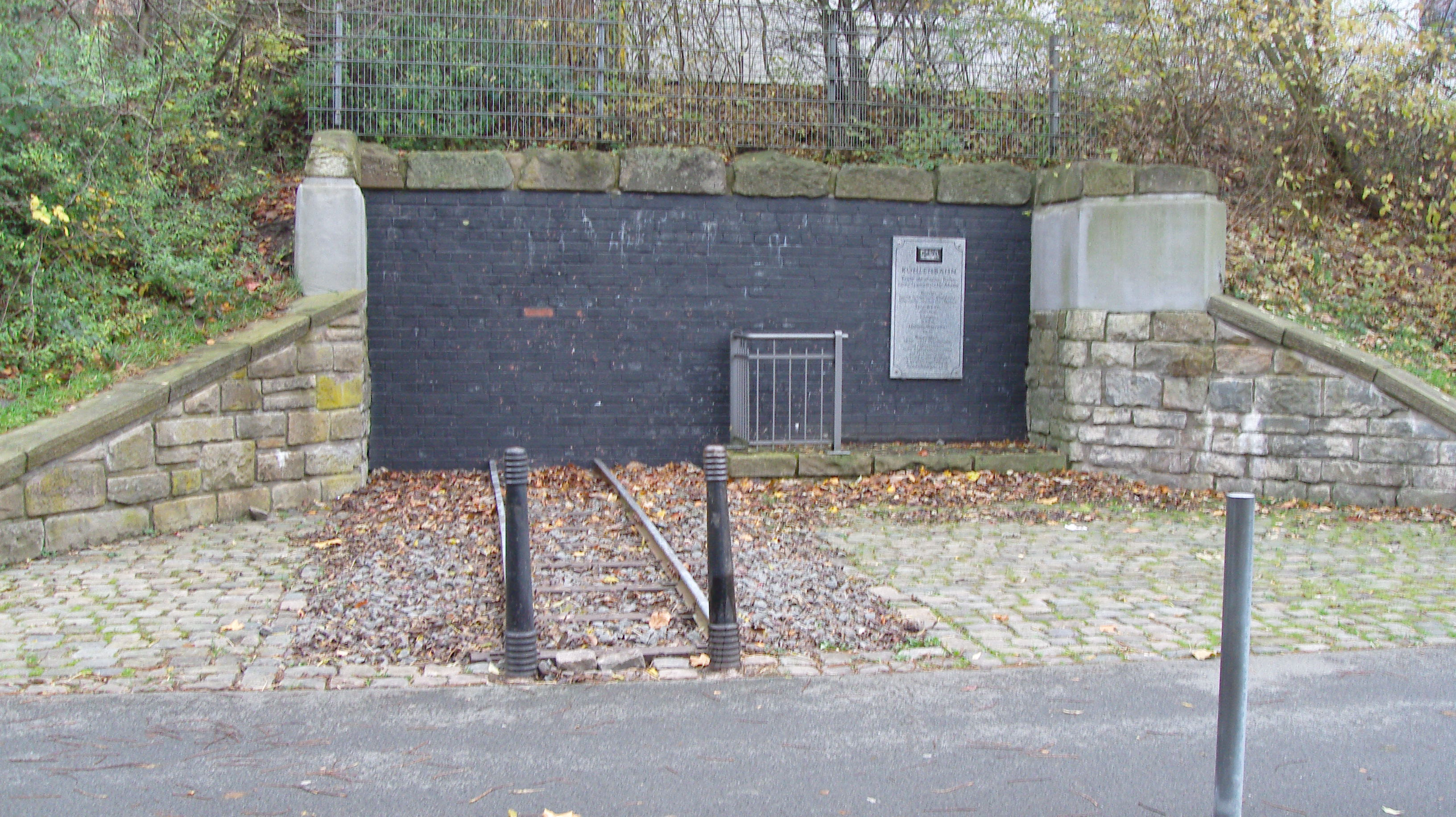 Portal of the underpass of the Silscheder Kohlenbahn under the station Harkorten to the Hasper Hütte